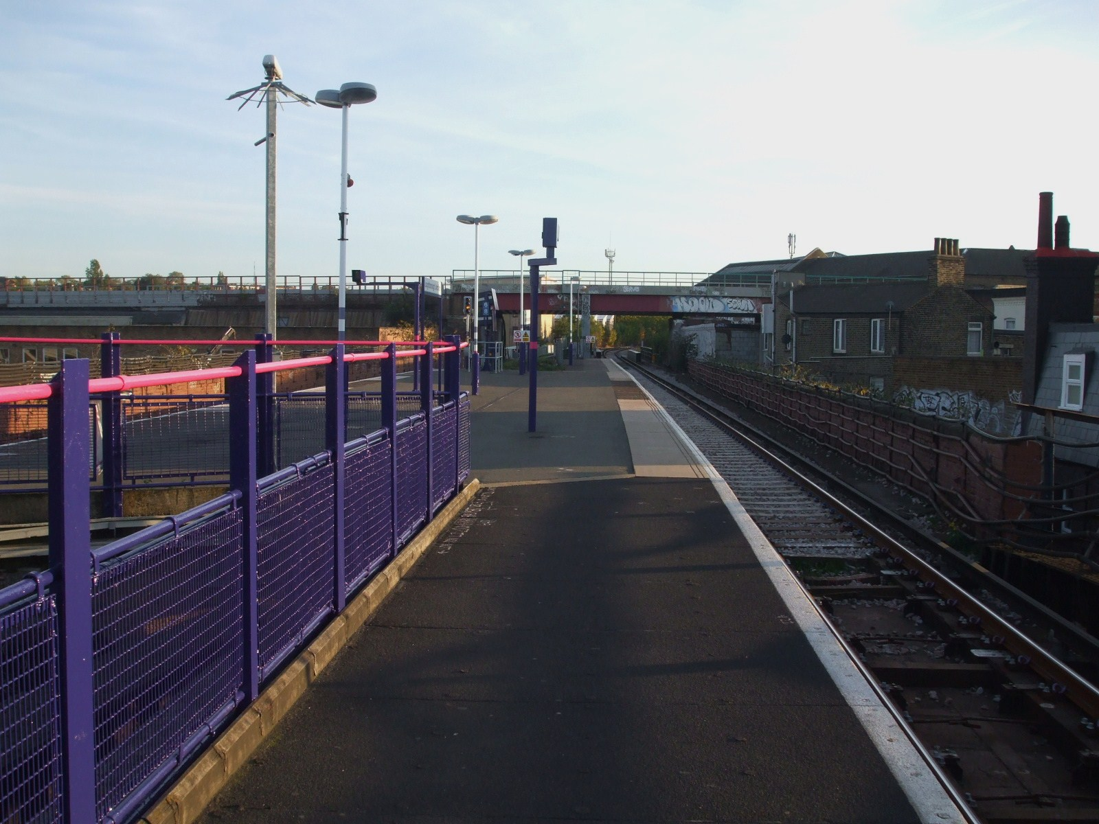 Loughborough Junction station looking south towards the South London Line out of Victoria, at this point shared between Southeastern and Southern services. However, despite passing just south of the station, there are no platforms.